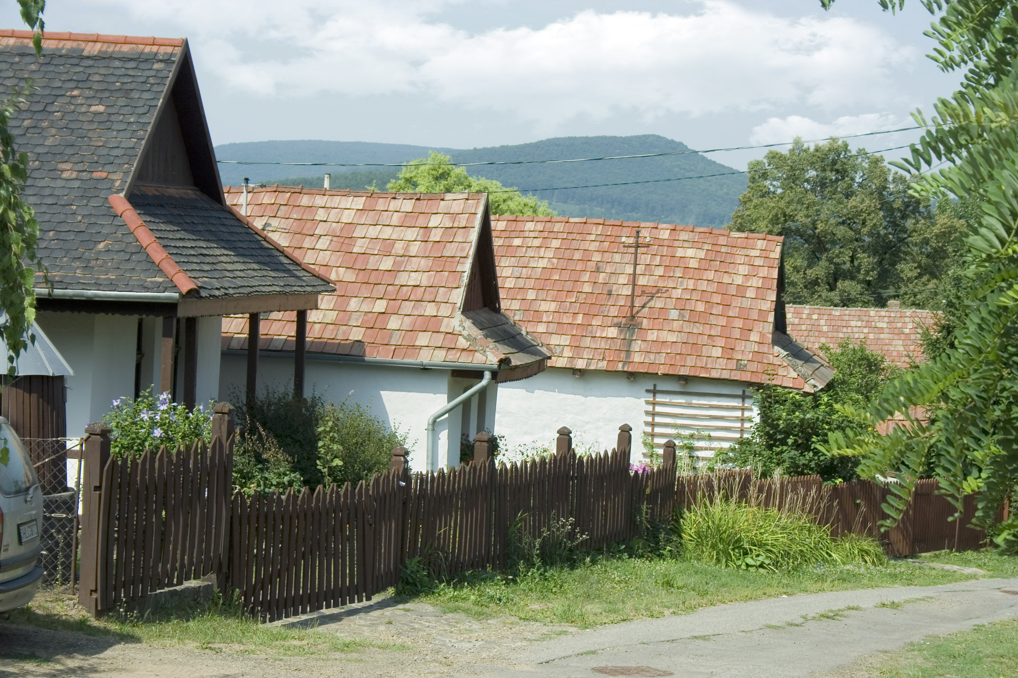 Garáb village- Nógrád County- Hungary - Sandor Petofi street